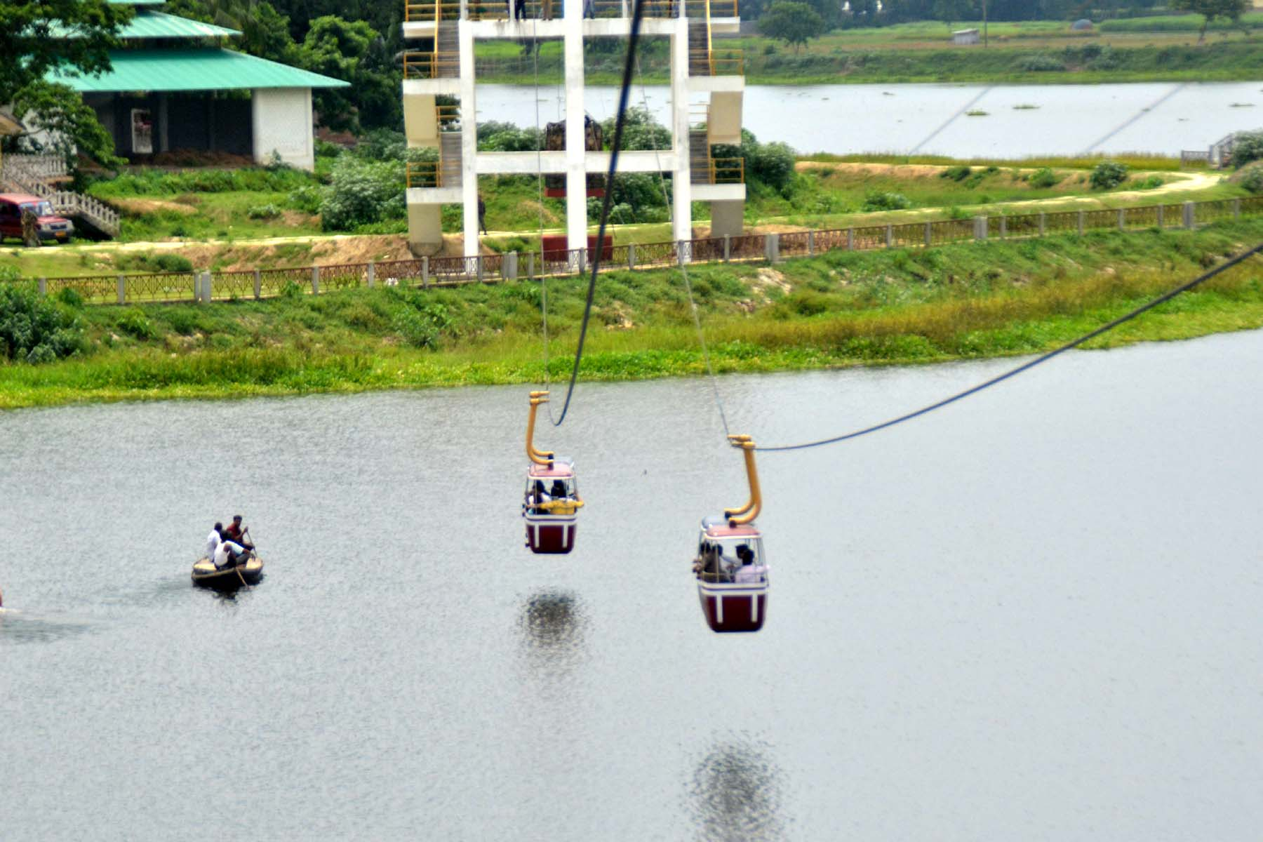 Inaugurated on 29 June, 2014, Sunday